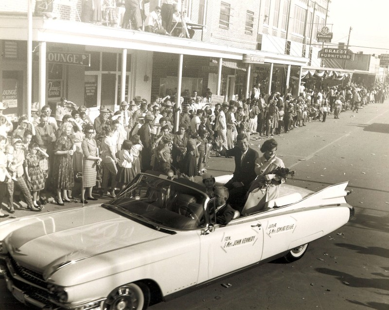 Senator and Mrs. John F. Kennedy and Judge and Mrs. Edmund Reggie in 1959 Rice Festival parade, driven by Mr. Childress in the Rice Festival parade.